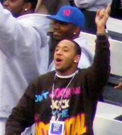 Steve Smith (New York Giants) at the Giants Rally after victory in Super Bowl XLII.